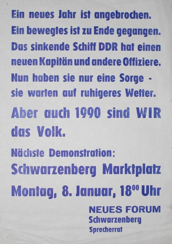 Neues Forum Schwarzenberg, flyer Jan 1990